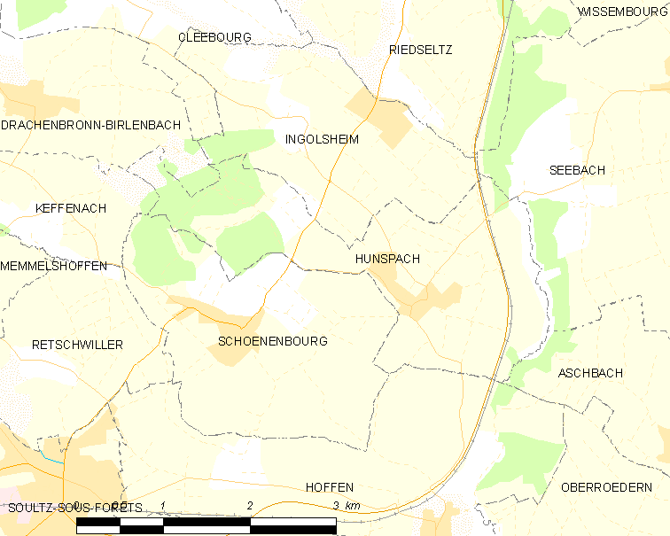 Map of French municipality